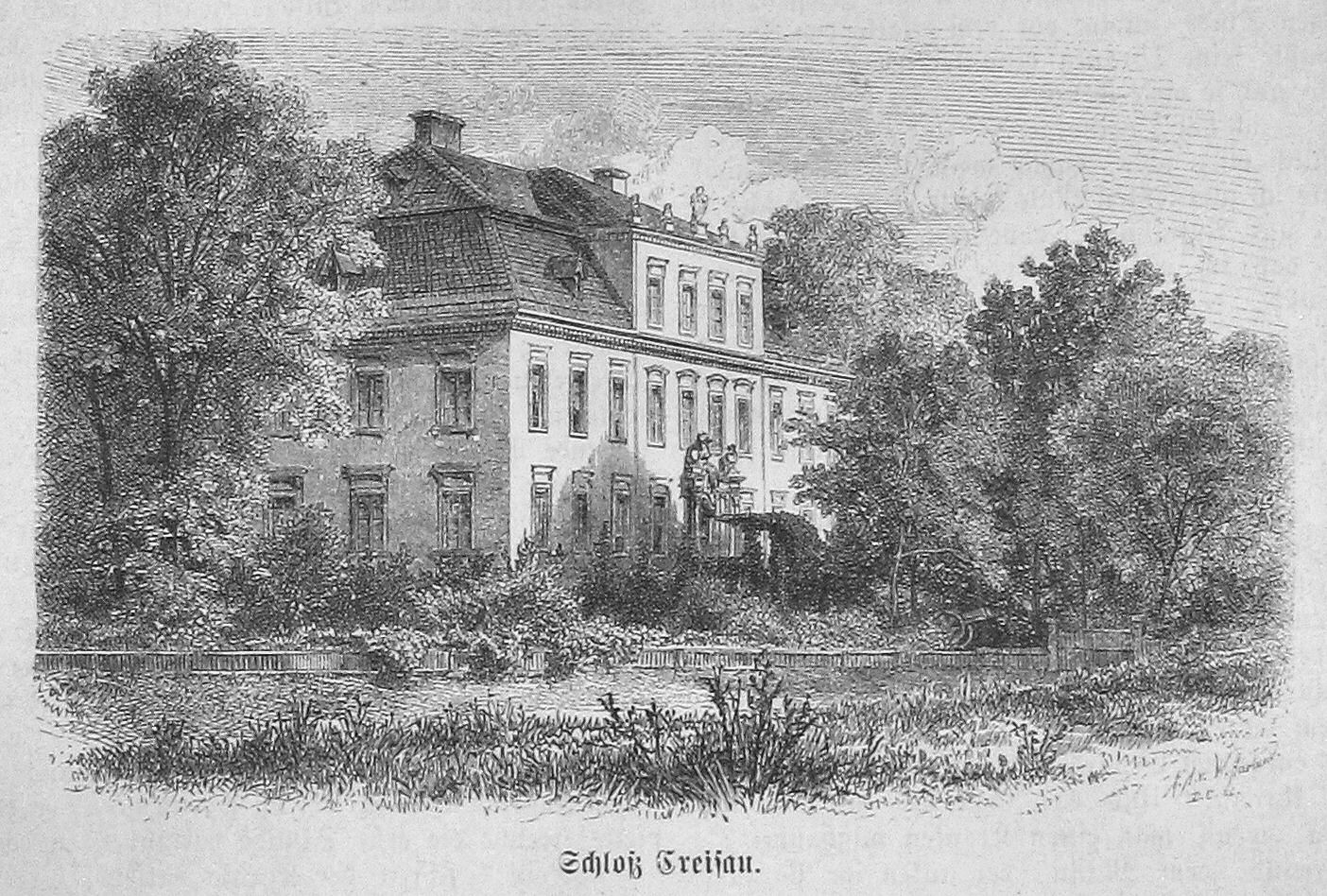 caption: "Schloß Creisau."